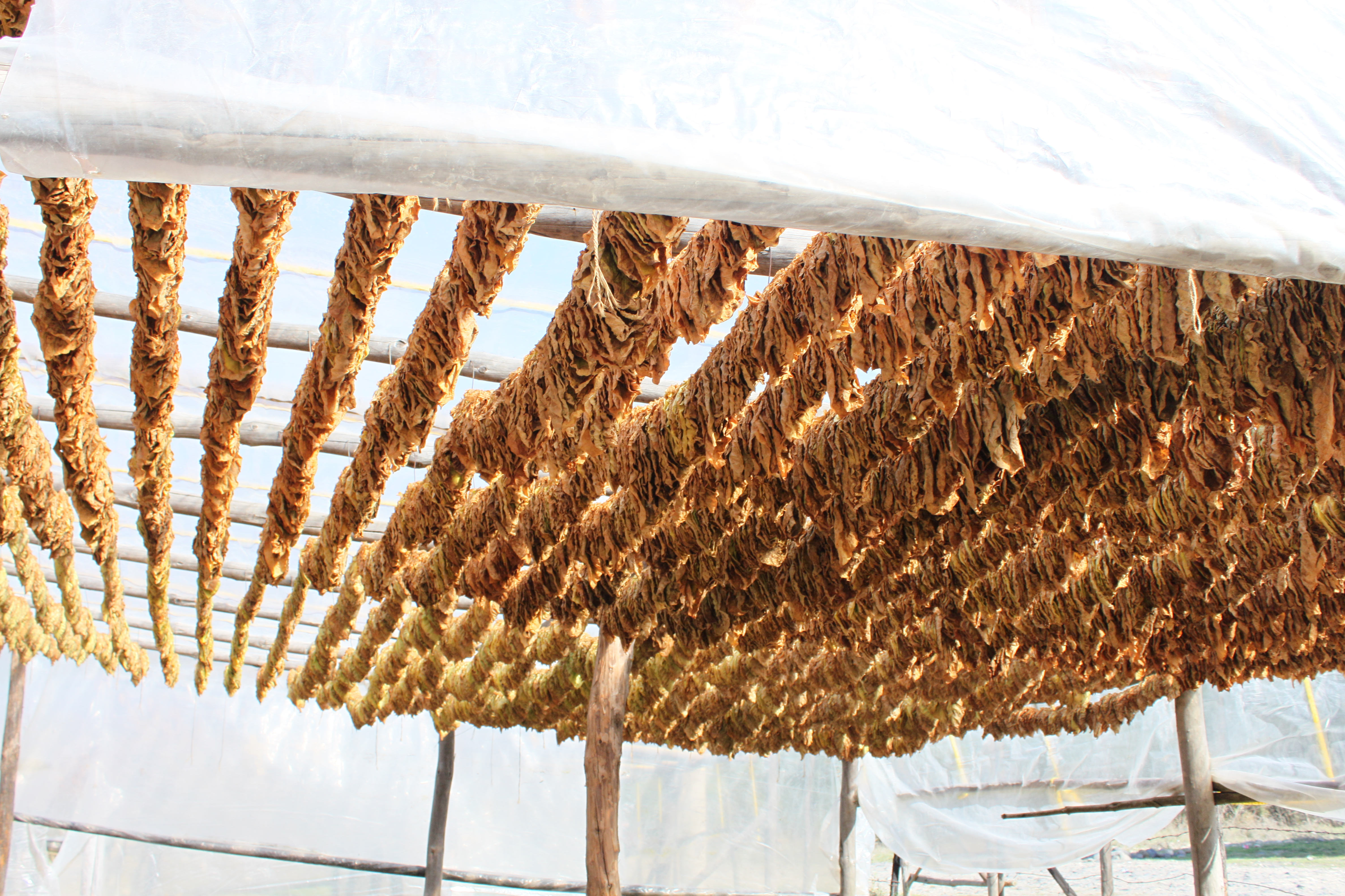 Gorna kula, a village in the Rhodope Mountains, Bulgaria